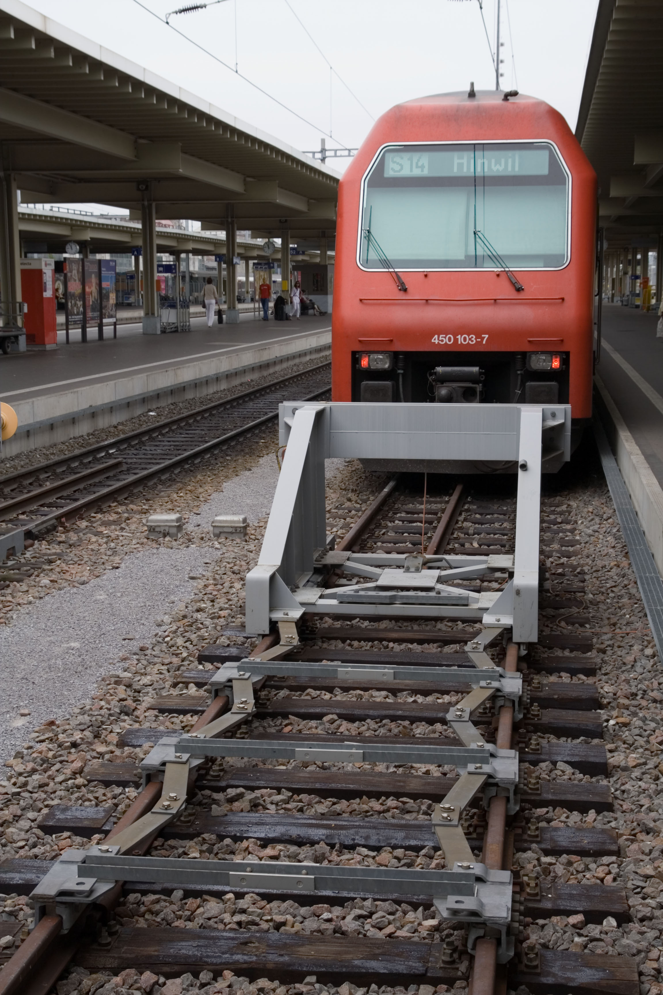 Buffer stop at Zurich Main Station track 54. The buffer stop is designed to move up to 7 m to slow down a 850 t passenger train from 15 km/h without damaging the train or injuring passengers.